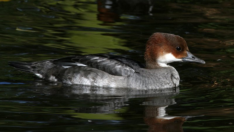 Smew (Mergellus albellus) This image was created by Ken Billington. If you are interested in a high resolution copy of this image, please contact the author Ken Billington in order to negotiate conditions of use. Do not copy this image illegally by ignoring the terms of the license below, as it is not in the public domain. If you would like special permission to use, license, or purchase the image please contact me to negotiate terms. More free images can be found on Ken Billington's Bird & Wildlife Photography.